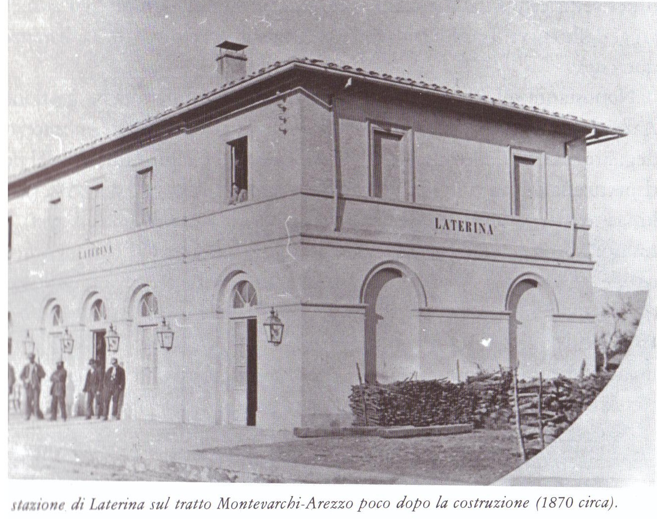 Laterina railway station in 1870